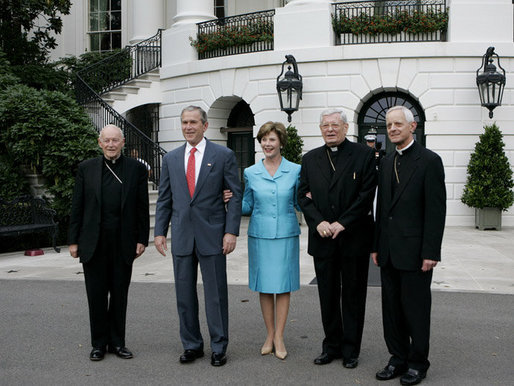 President George W. Bush and Laura Bush welcome outgoing Archbishop of Washington Theodore Cardinal McCarrick, left, the incoming Archbishop of Washington Donald W. Wuerl, right, and Papal Nuncio Pietro Sambi to the White House Tuesday evening, July 18, 2006, for a dinner in their honor.